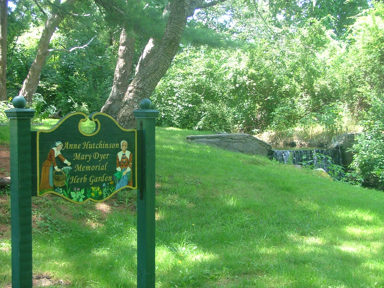 The Anne Hutchinson Mary Dyer Memorial Herb Garden at Founders' Brook Park — on Boyd Lane in Portsmouth, Newport County, Rhode Island.